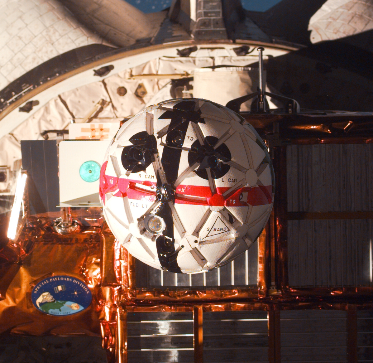 This Electronic Still Camera (ESC) view shows the Autonomous Extravehicular Activity Robotic Camera Sprint (AERCam Sprint) in the cargo bay of the Earth-orbiting Space Shuttle Columbia. The AERCam Sprint is a prototype free-flying television camera that could be used for remote inspections of the exterior of the International Space Station (ISS). This view was taken at 12:21:39 GMT.